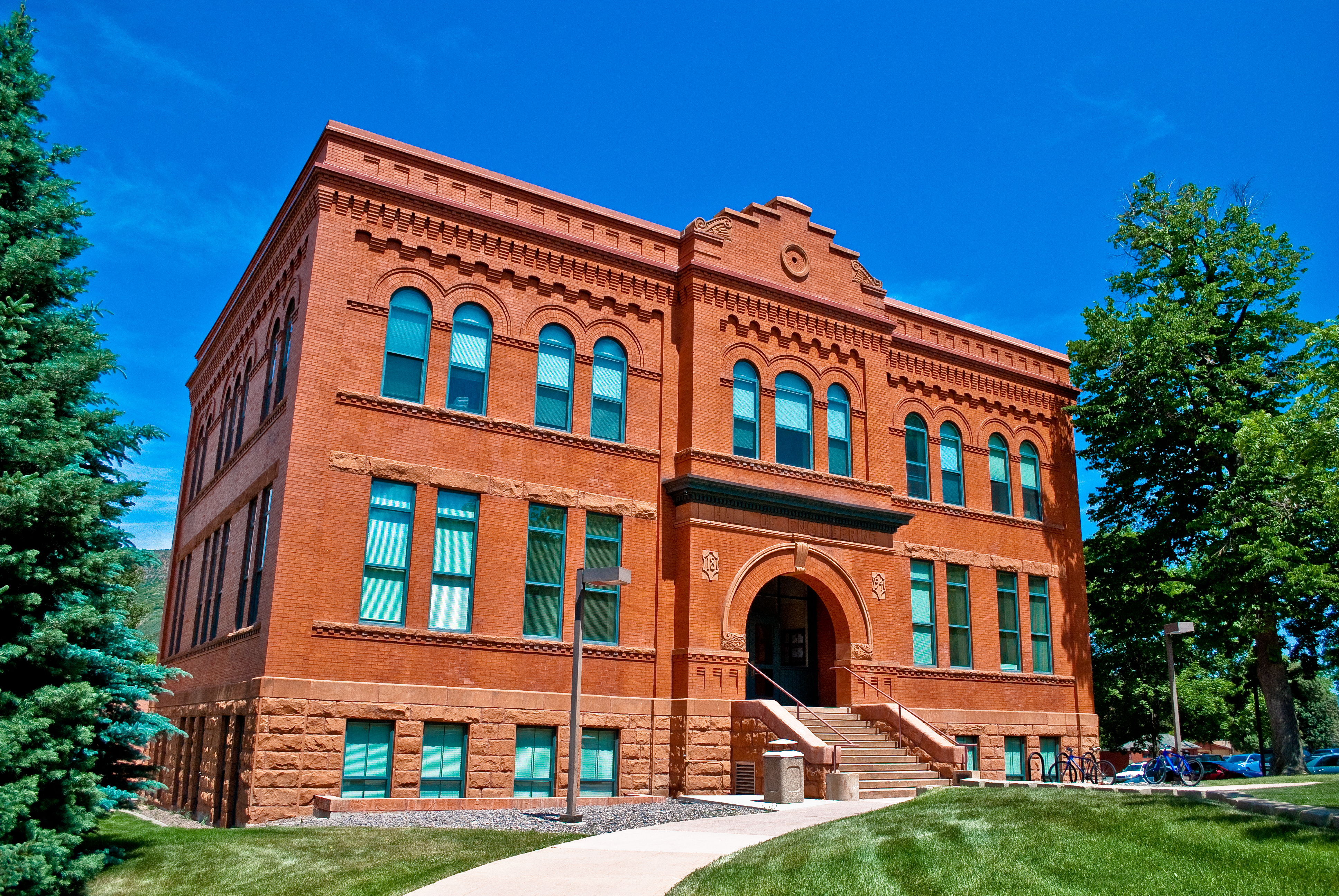 Stratton Hall at the Colorado School of Mines in Golden, CO